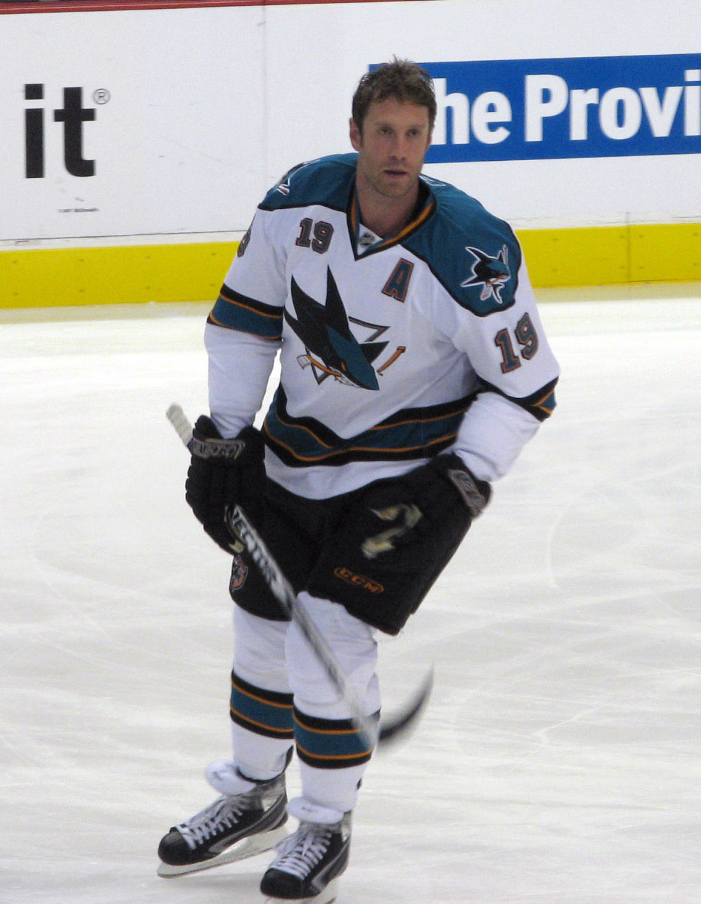 Joe Thornton during the pre-game warm-up at the Vancouver Canucks 2007 home opener